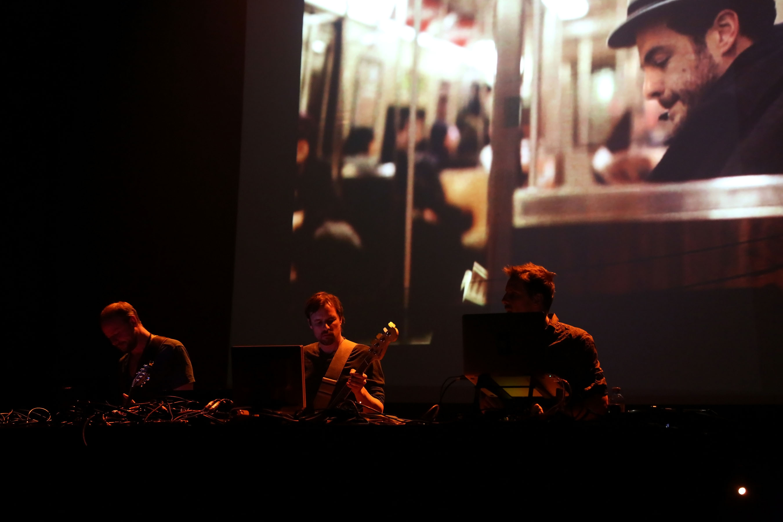 Timo Novotny, Markus Kienzl and Wolfgang Frisch performing live to Novotny's film Trains of Thoughts at Odeon theater during Waves Vienna Music Festival & Conference 2013 in Vienna, Austria.